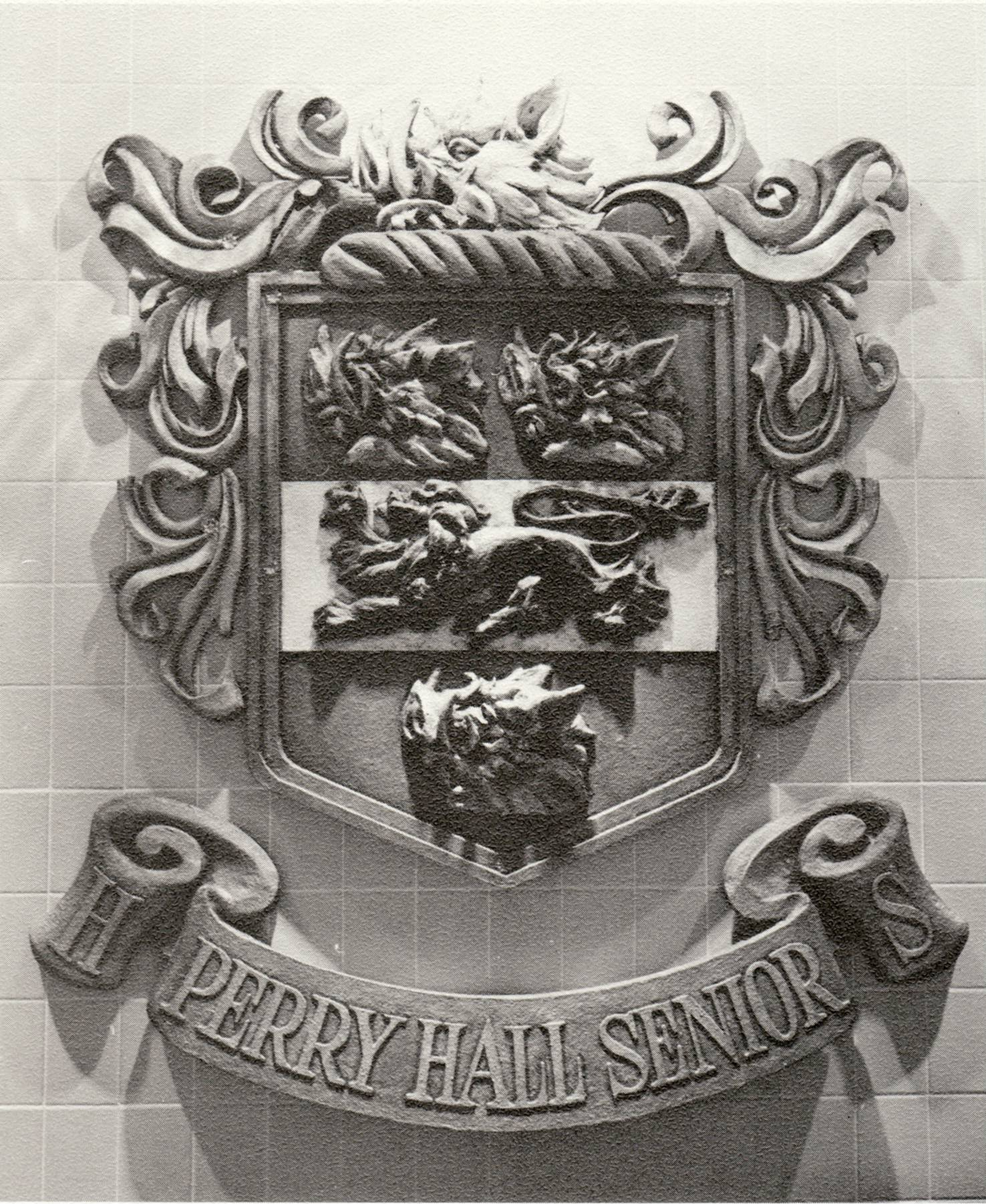 The Harry Dorsey Gough coat of arms was displayed at Perry Hall High School until it was inadvertently destroyed during necessary renovations.